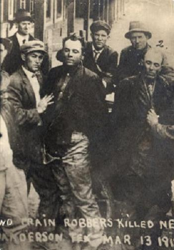 Townspeople holding up the corpses of the outlaws Ben Kilpatrick (left) and Ole Hobek in front of the Sanderson, Texas train depot. Photo dated March 13, 1912.